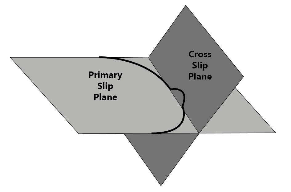 The screw part of a dislocation loop may deviate in a cross slip plane. The dislocation Burgers vector is along the intersection of the primary and the cross slip planes.